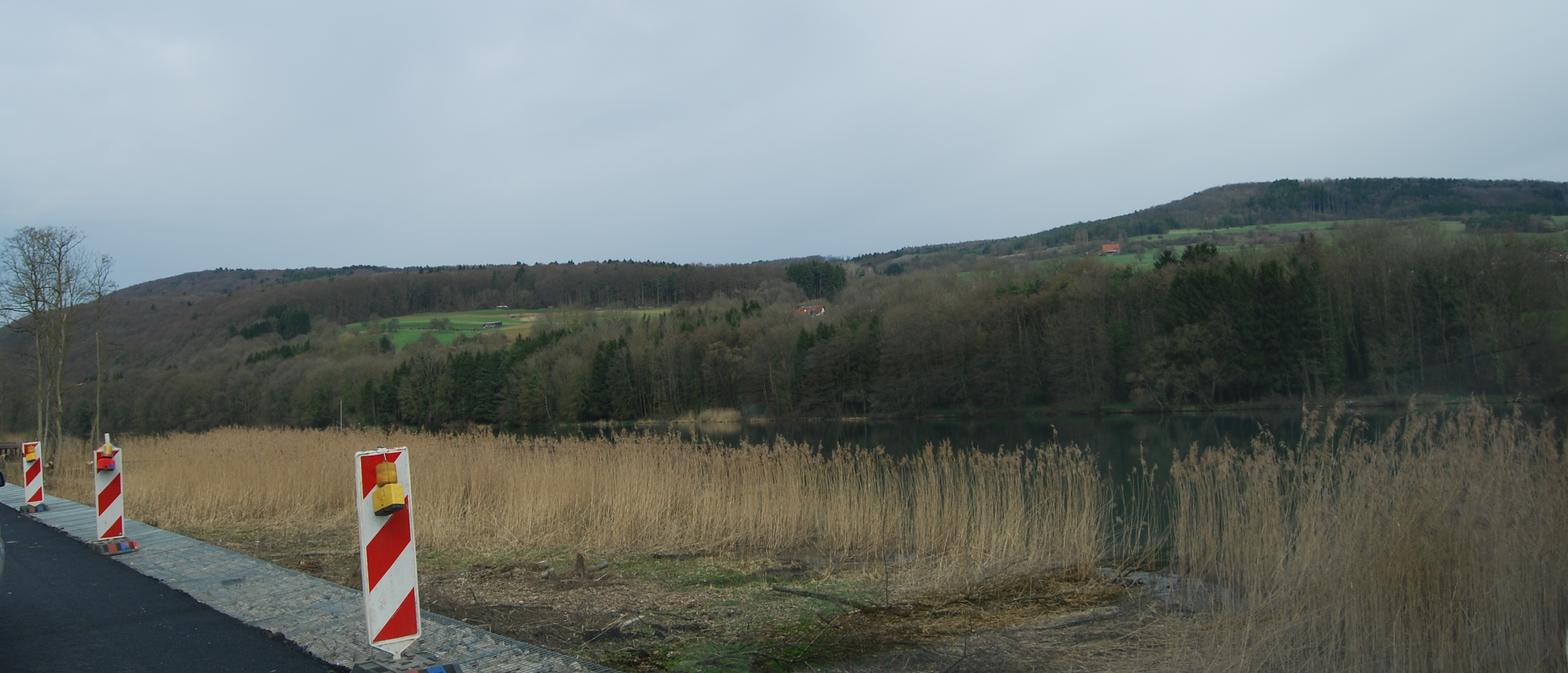 Rhine seen from Rümikon, canton of Aargau, SwitzerlandEsperanto: Rejno vidita de Rümikon, Kantono Argovio, Svislando